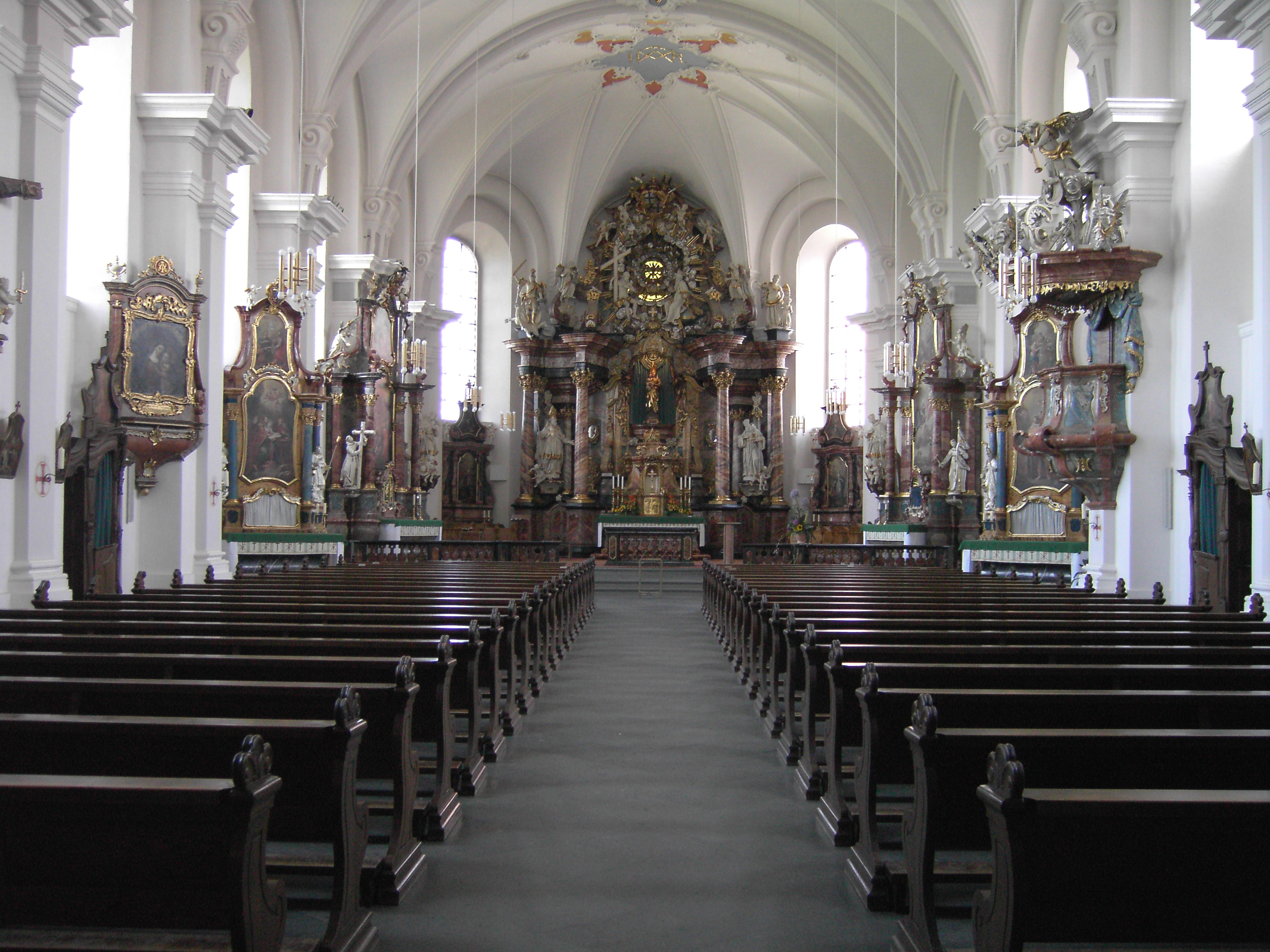 Innenansicht vom Eingang aus